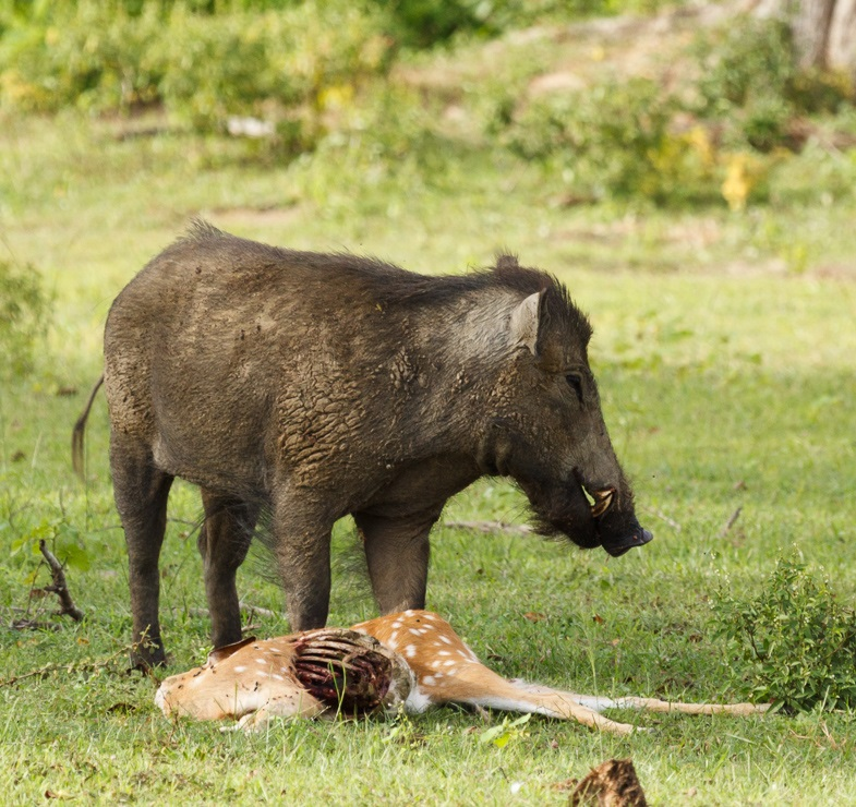 Indian boar scavenging on chital carcass